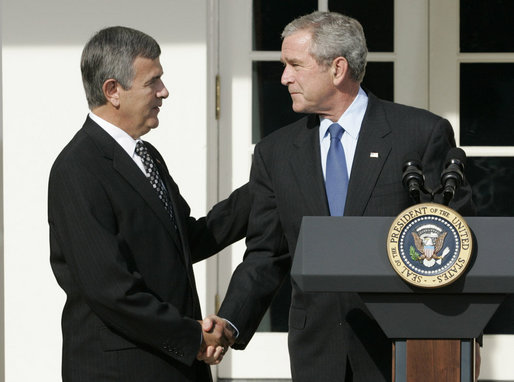 President George W. Bush shakes the hand of Mike Johanns, resigning Secretary of Agriculture, after he announced the secretary's decision to return to his home state of Nebraska during a morning statement in the Rose Garden, White House.